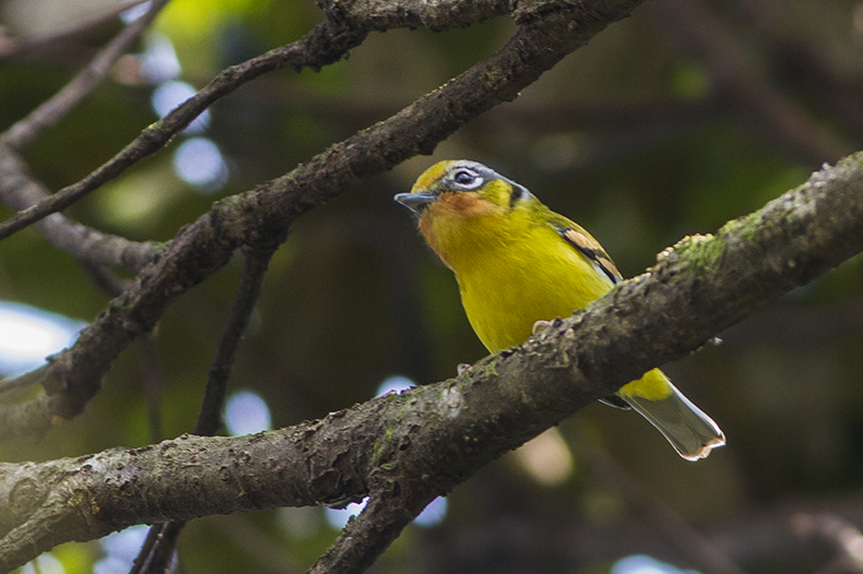 This image has been photographed from Fambong Lho Wildlife Sanctuary, Sikkim, India